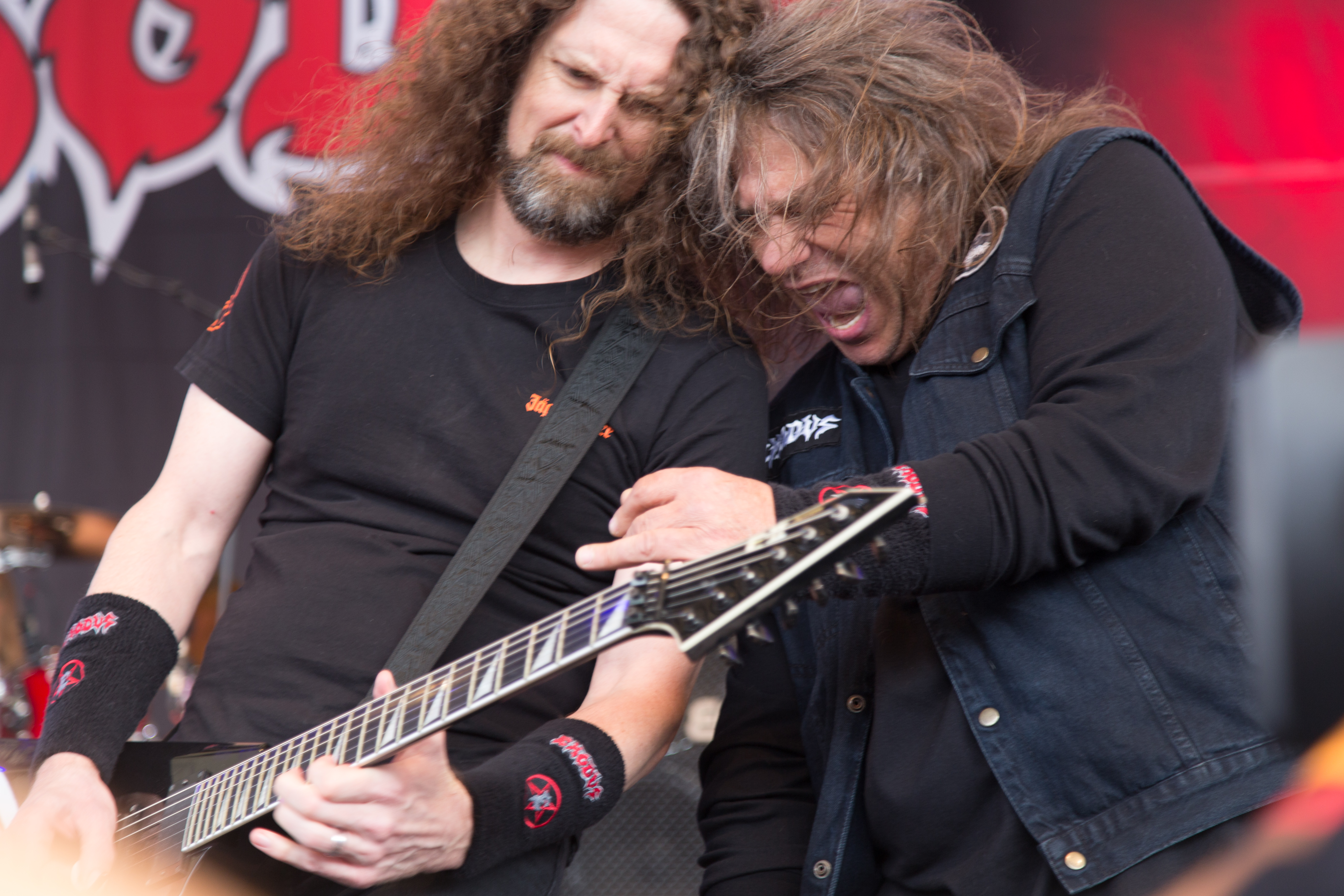 Exodus performing live at Rock Hard Festival 2017, Gelsenkirchen, Germany